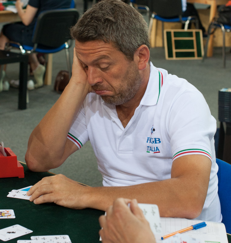 Antonio Sementa from Italy regards the dummy with a somewhat jaundiced eye